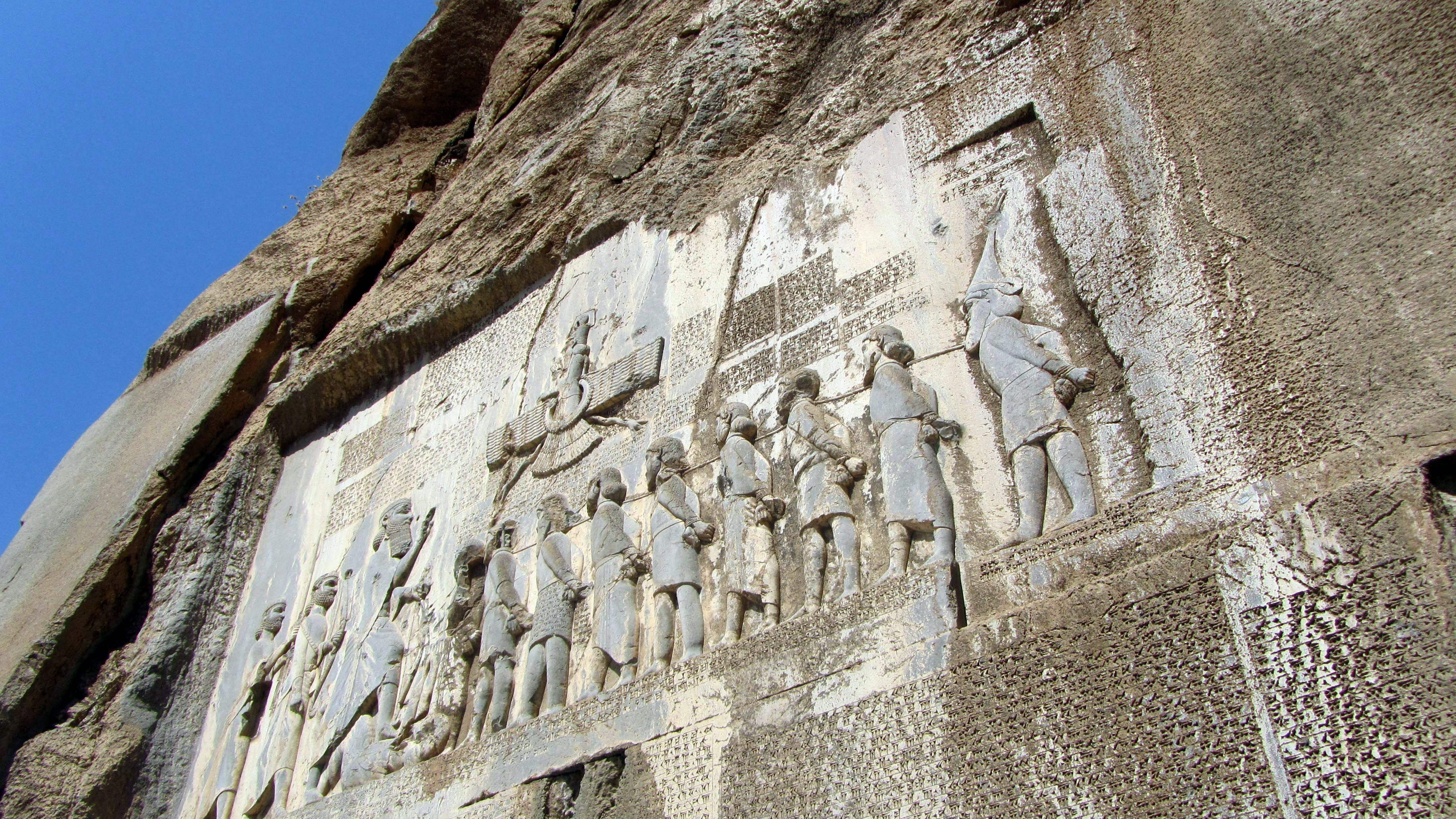 Behistun Inscription (Bistoun / Bisotoun), dated ca. 520 BC, in Persia. -- Photo by Hamidreza Sorouri / Persian Dutch Network